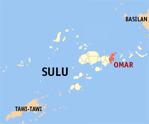 Map of the Sulu showing the location of Omar